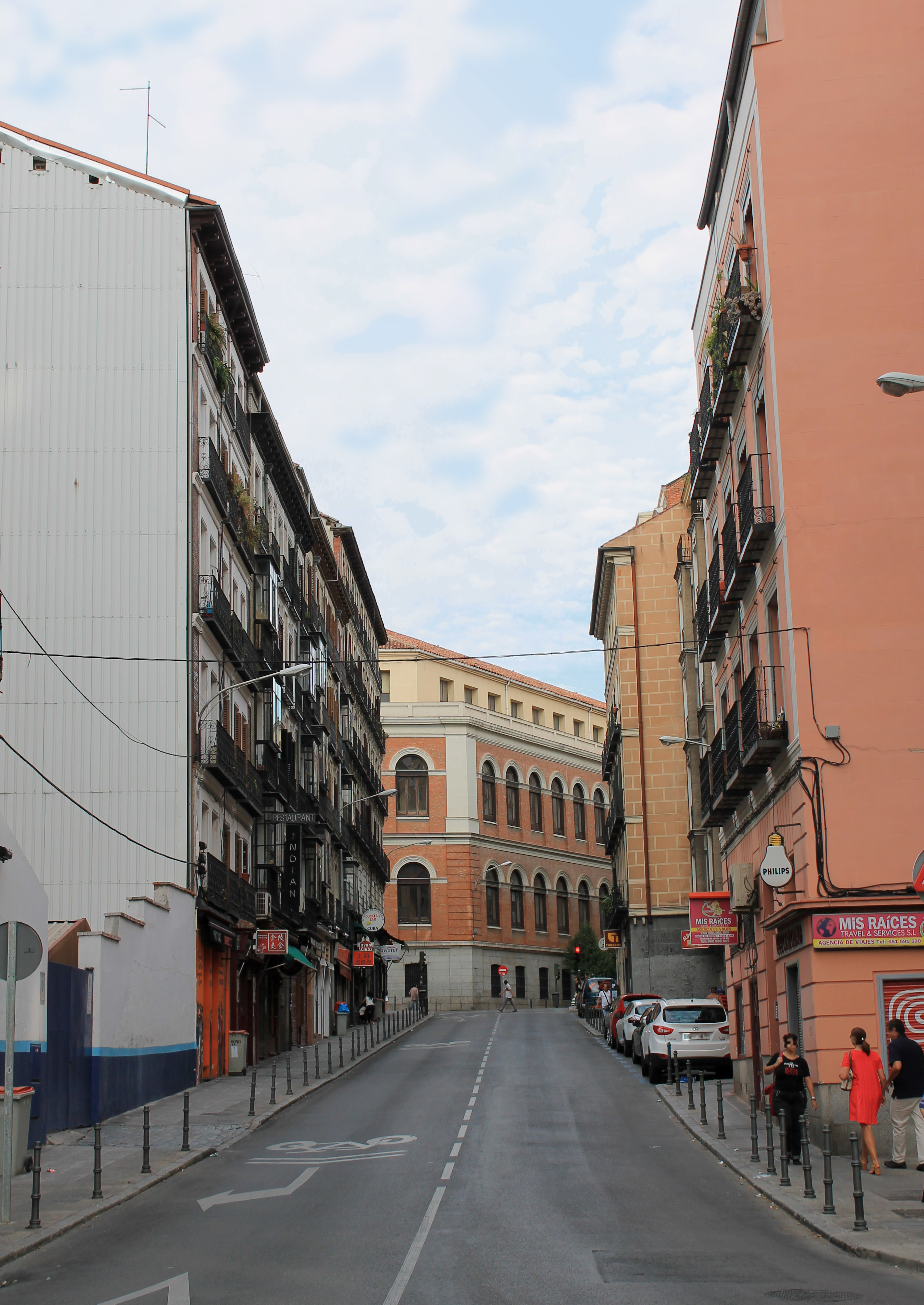 View from Calle de los Reyes (street) in Madrid (Spain). Background: Instituto Cardenal Cisneros.